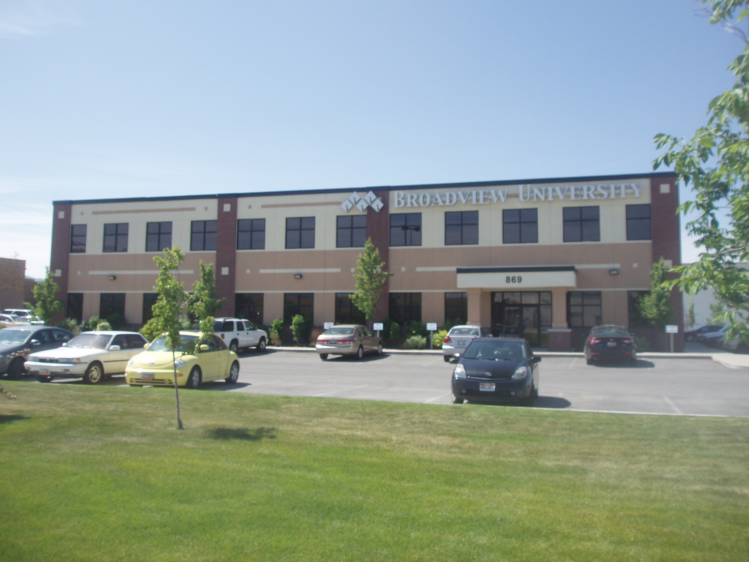 The Layton, Utah campus of Broadview University.